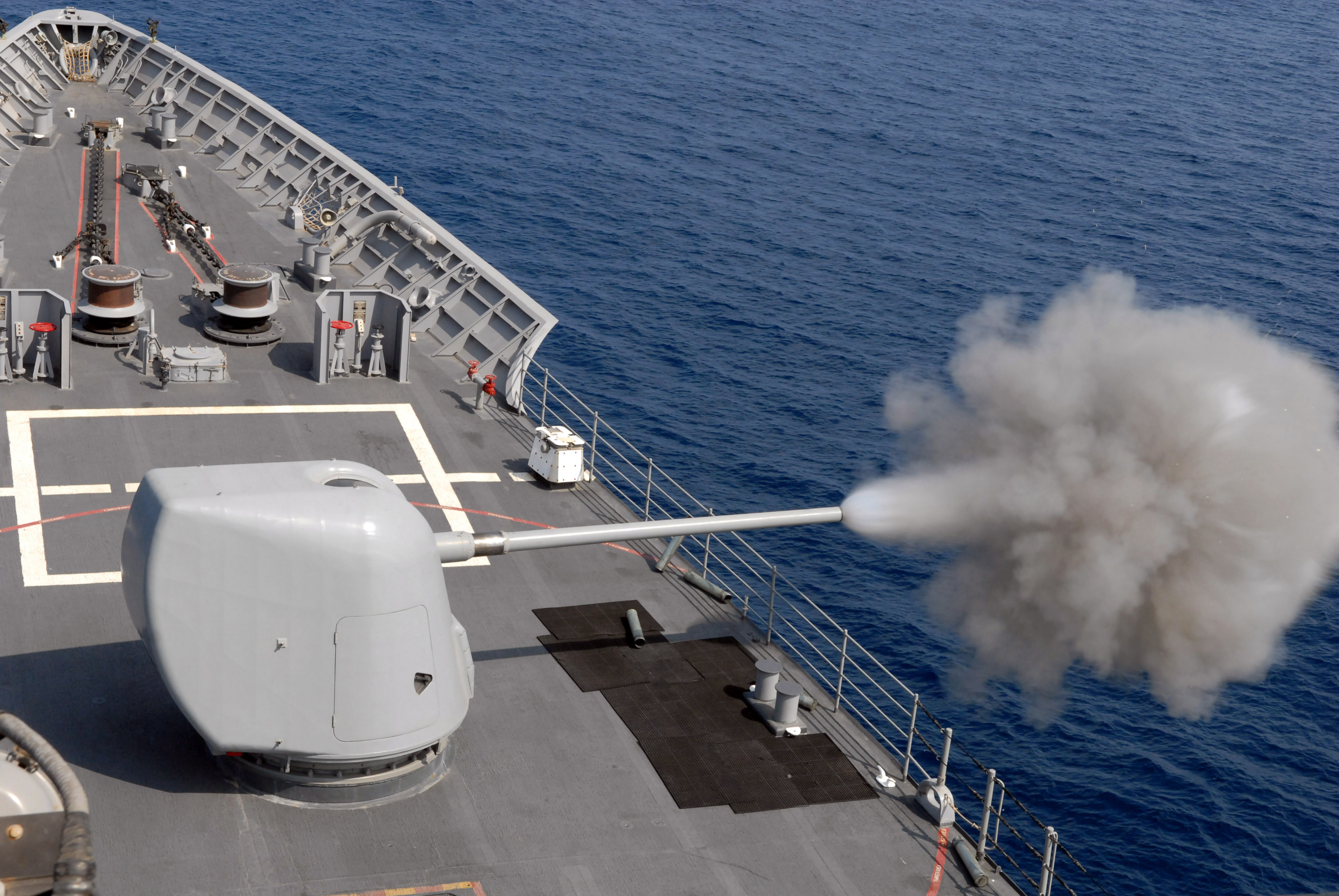 USS Chancellorsville (CG-62) fires a 5-inch MK-45 light-weight gun during a weapons firing exercise